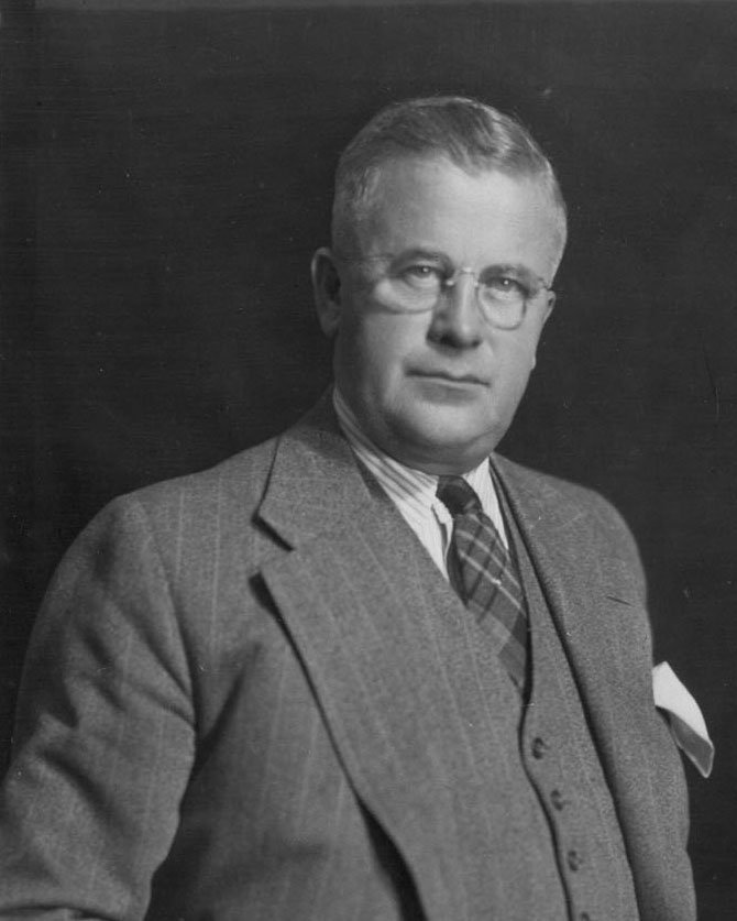 Frank Exton Lennard, Former Canadian MP